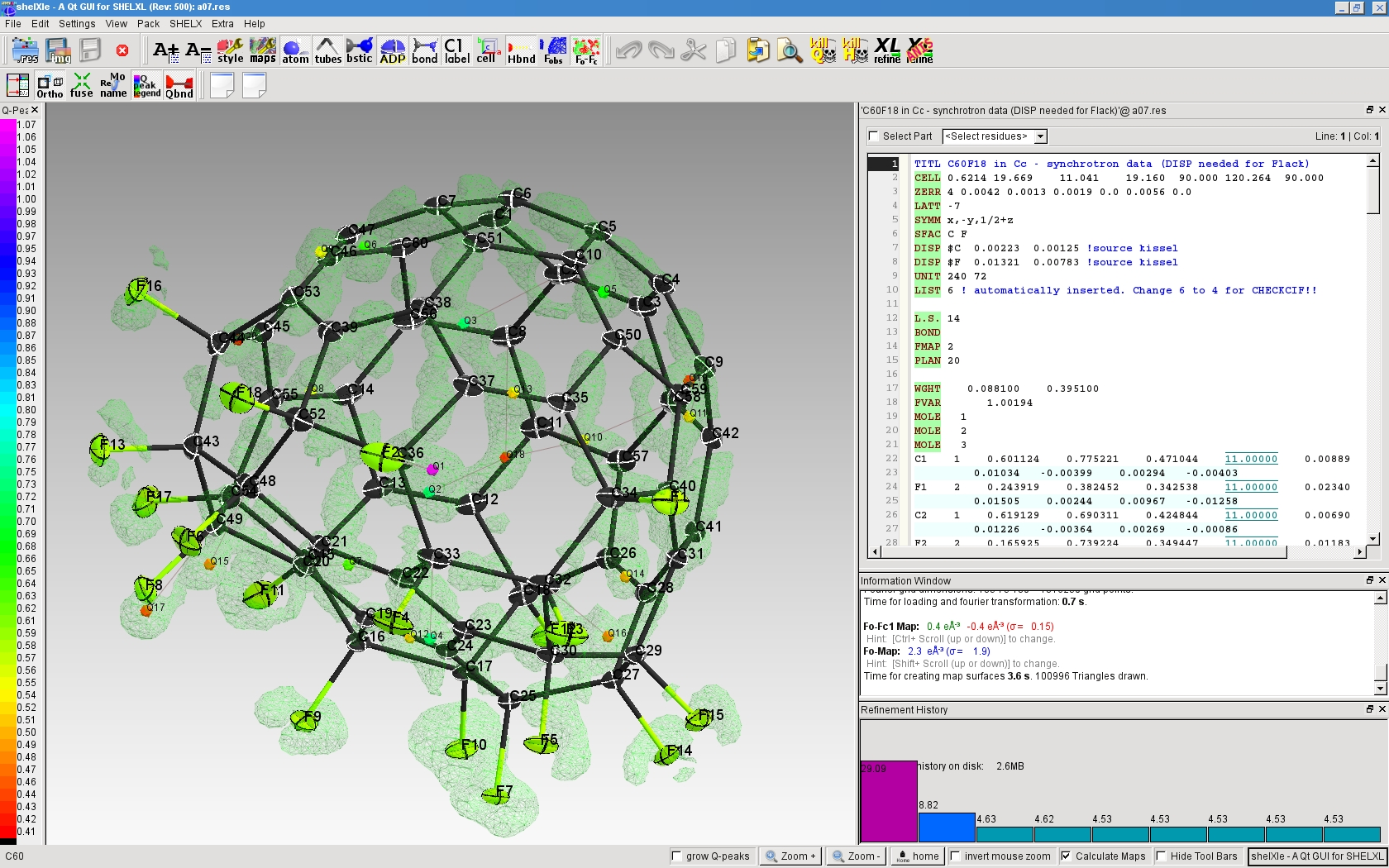 Screenshot of the GUI of ShelXle showing a structure of C60F18